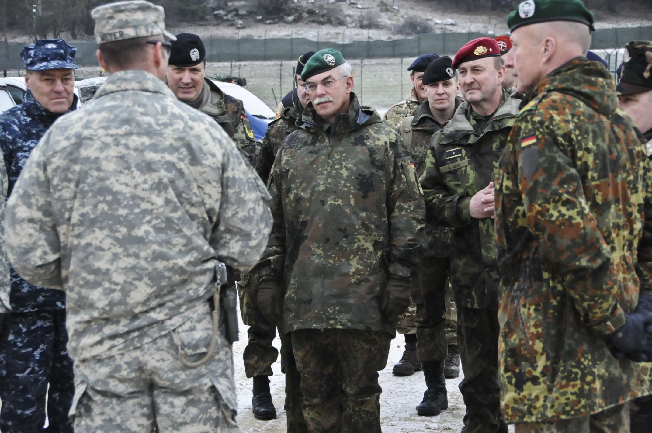 Col. John V. Meyer III, 2nd Cavalry Regiment commander, along with members of his staff welcome Lt. Gen. Frederick "Ben" Hodges, U.S. Army Europe Commander and fellow leaders of NATO allied forces, as they visit 2 CR's Tactical Operations Center during Allied Spirit I in Hohenfels, Germany, Jan. 23, 2015. Living and training alongside our allies and neighbors in Europe helps the U.S. maintain the relationships and trust that are essential for ensuring regional security.